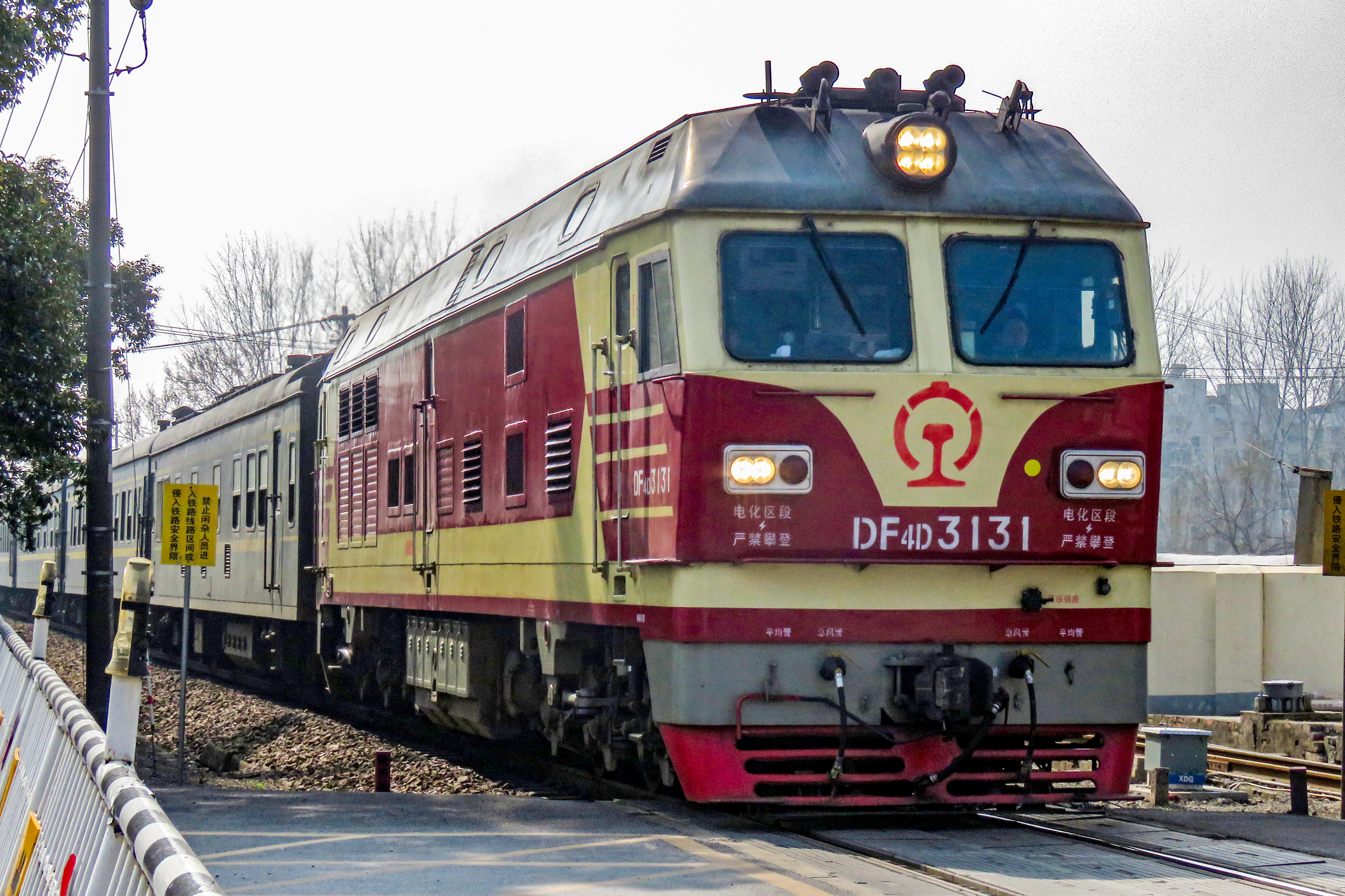 K34 from Shenzhen to Suzhou. Two days later, another DF4DK became famous: DF4D-3058.